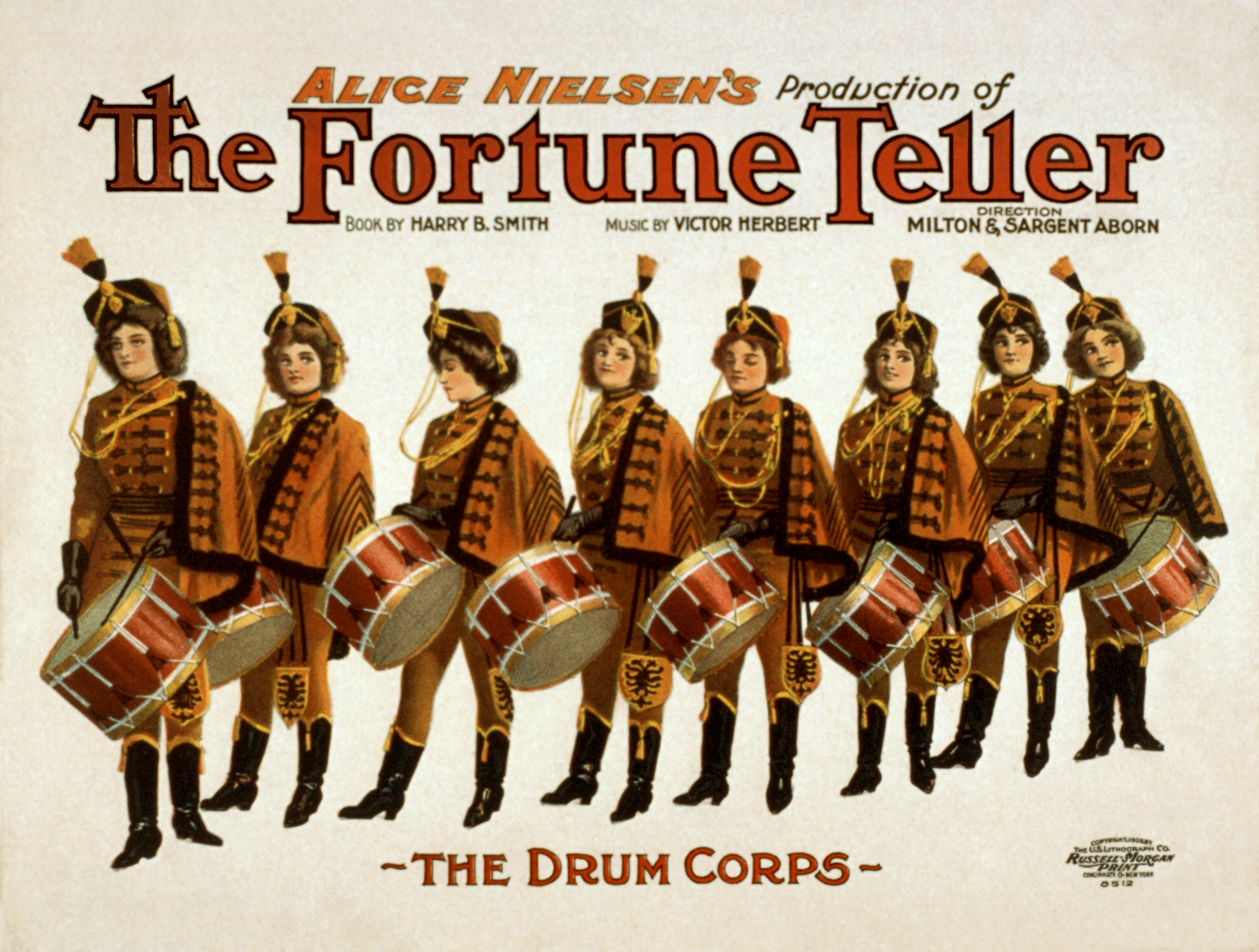 A 1905 poster for Victor Herbert's The Fortune Teller (1898) showing the women's drum corps. Alice Nielsen's production was the first production of the opera; this poster comes a bit late for the original run, and so presumably comes from a touring or repertoire production by her company. Also, the file name is wrong: It should be The Fortune Teller, but... too late now, frankly, if we're going to keep the upload history. Adam Cuerden (talk) 15:04, 3 March 2009 (UTC)